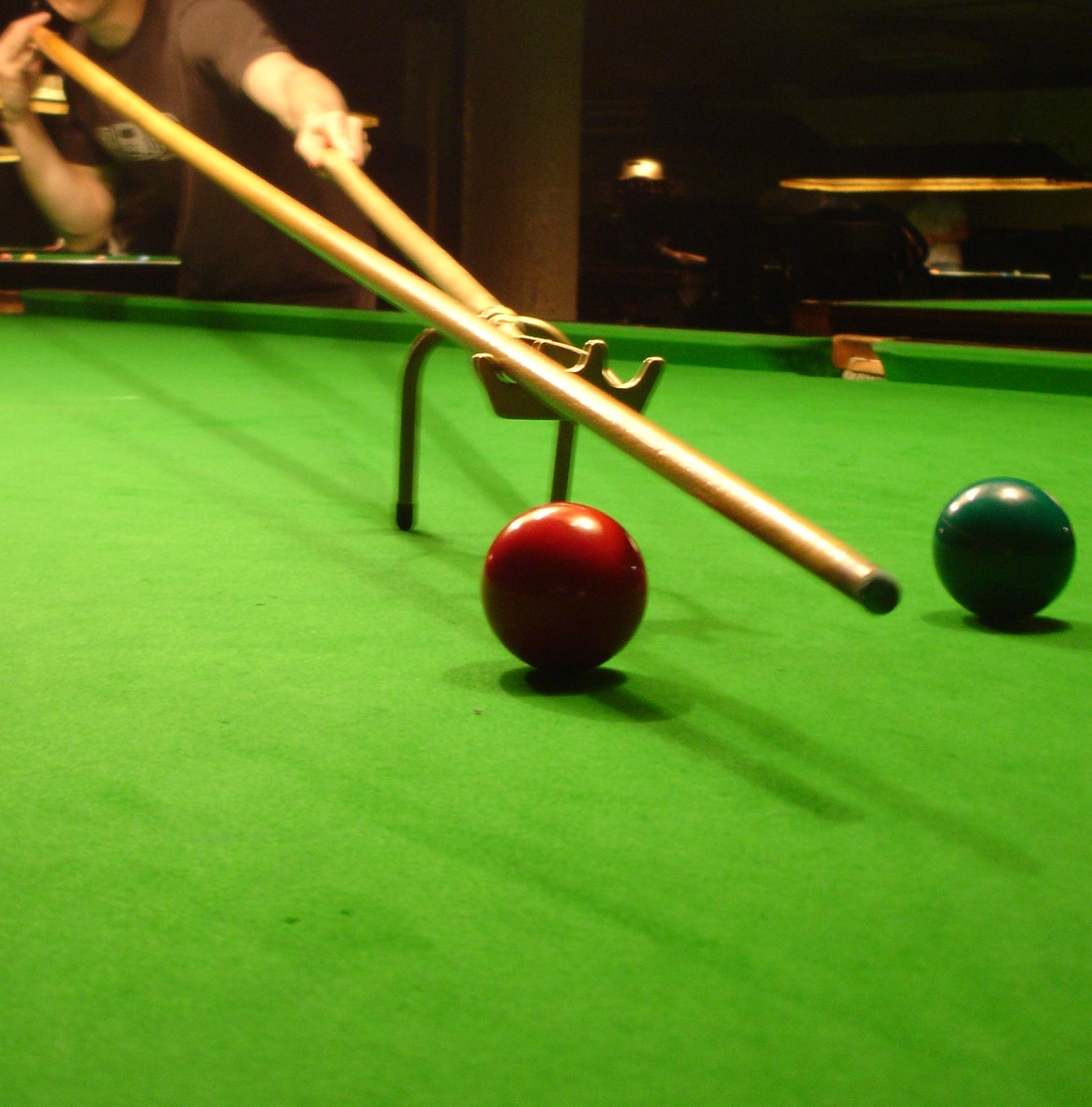 Photo of swan neck spider rest used in snooker